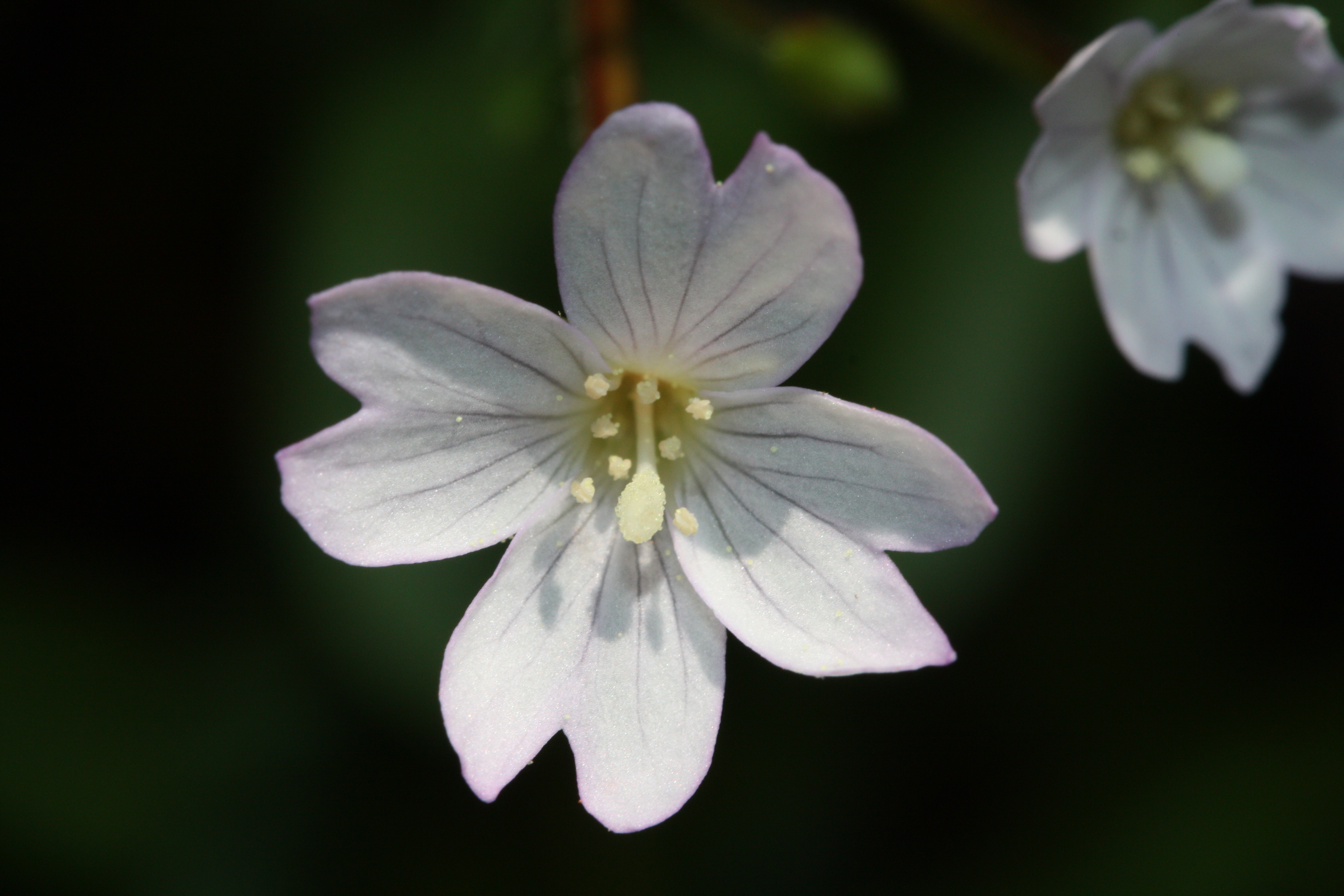 Talus Willowherb